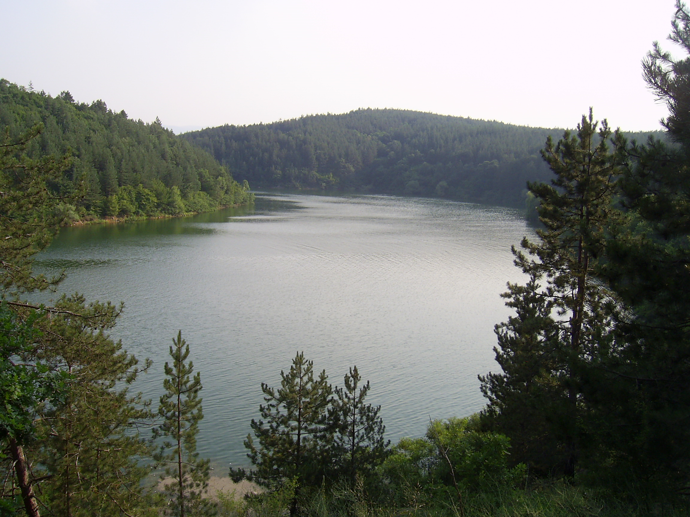 язовир Копринка-ръкав``Голяма гюрля``